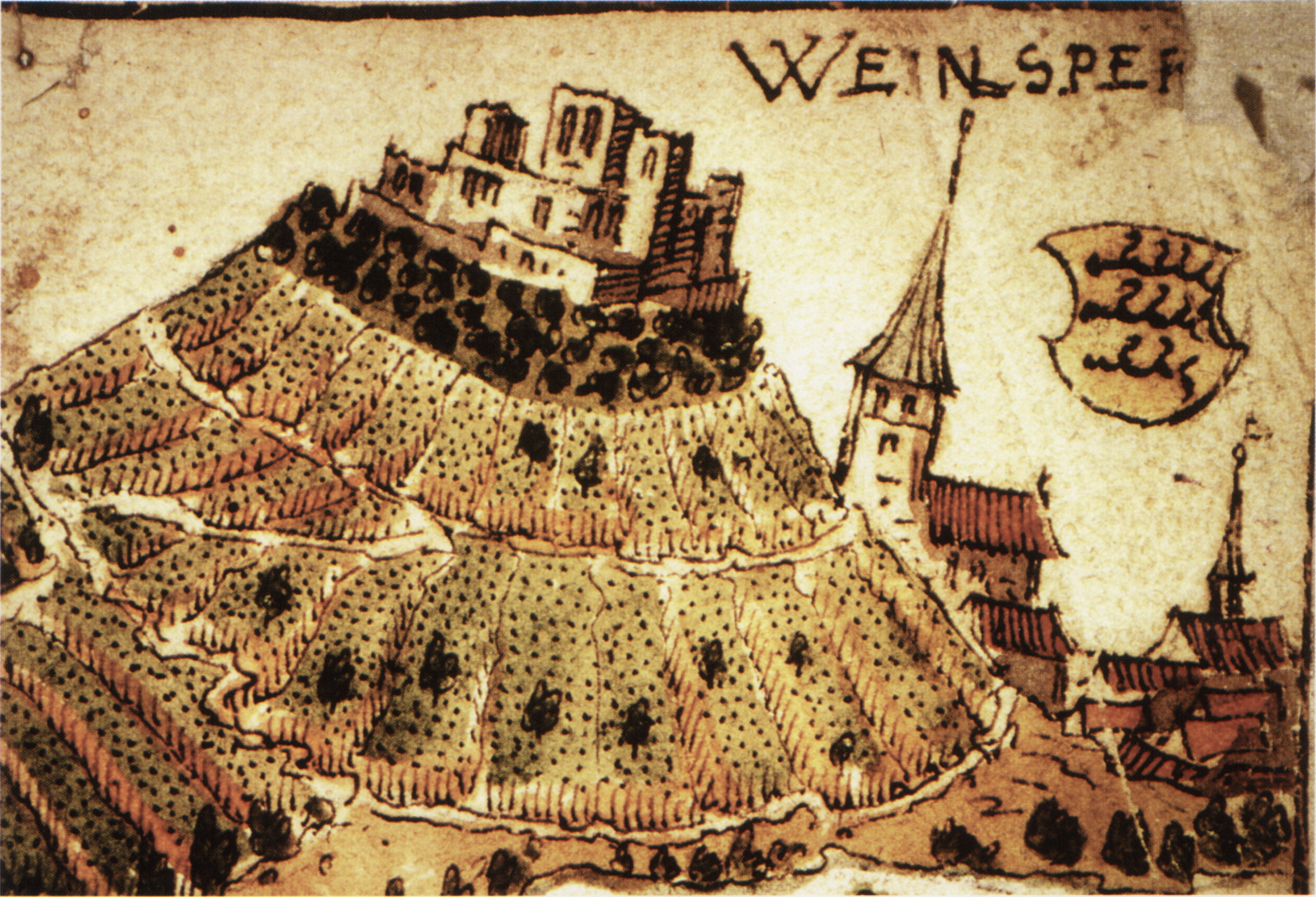 Weinsberg in 1578. Part of a map of the surroundings of Heilbronn